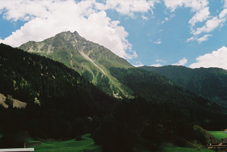 mountain "Klopaierspitze / Piz Clopai",, 2.918 metres, viem from top of the pass of "Reschenpass / Passo di Resia"